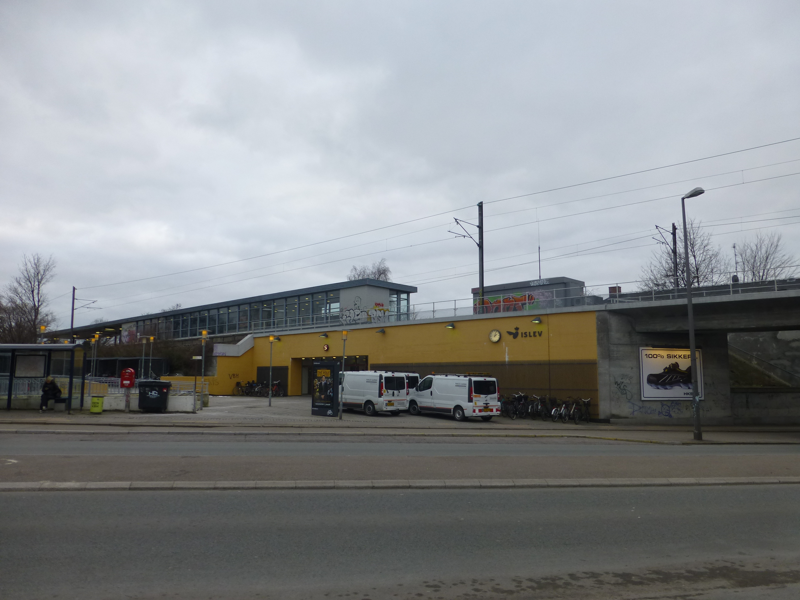 Islev Station, a S-train station on Frederikssundsbanen in Copenhagen.